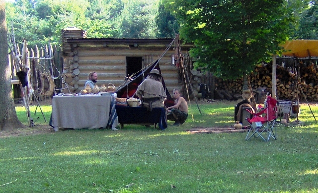 Participants in a reenactment at Fort Watauga at Sycamore Shoals State Historic Park in June 2009.